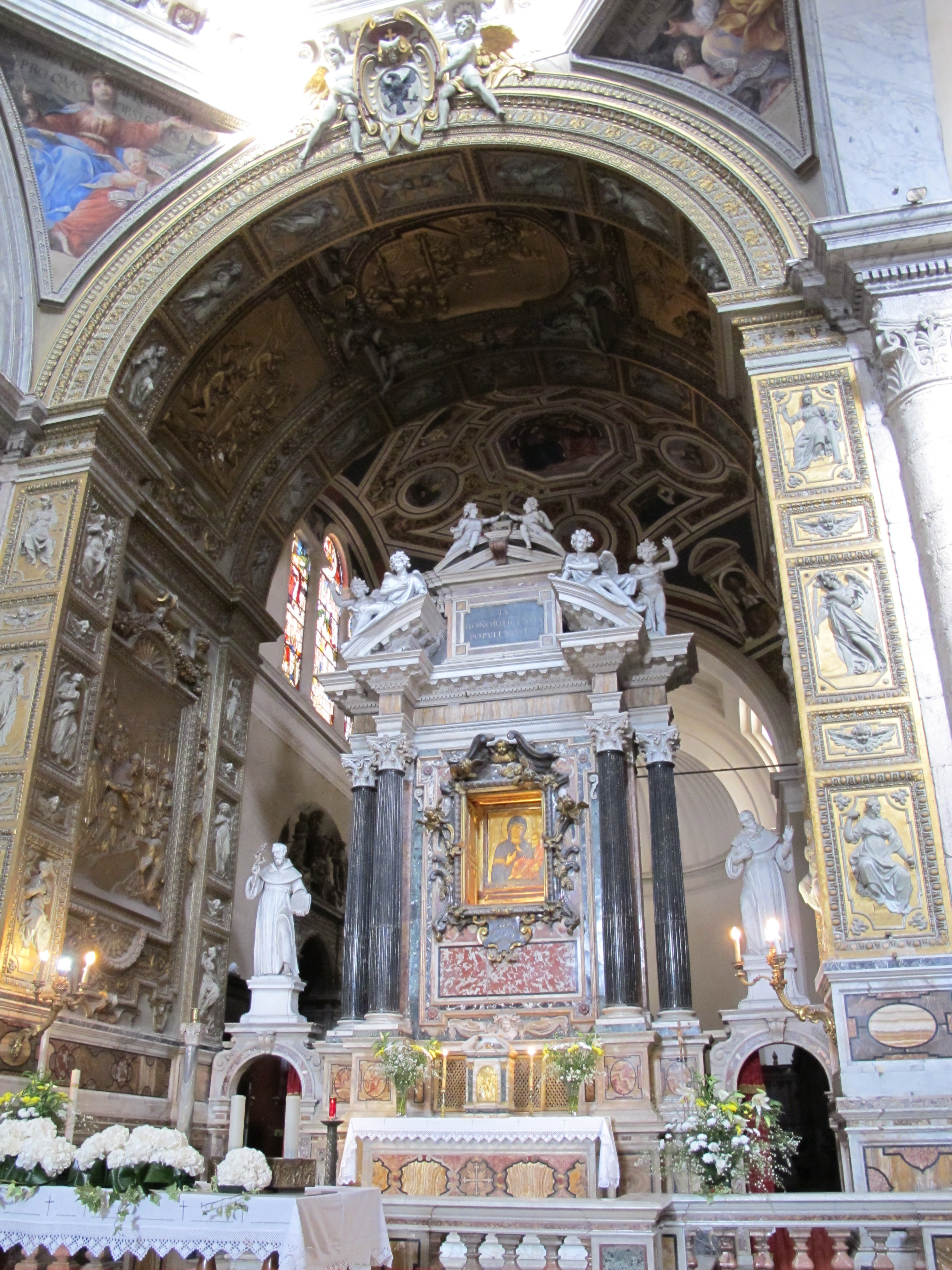 see above